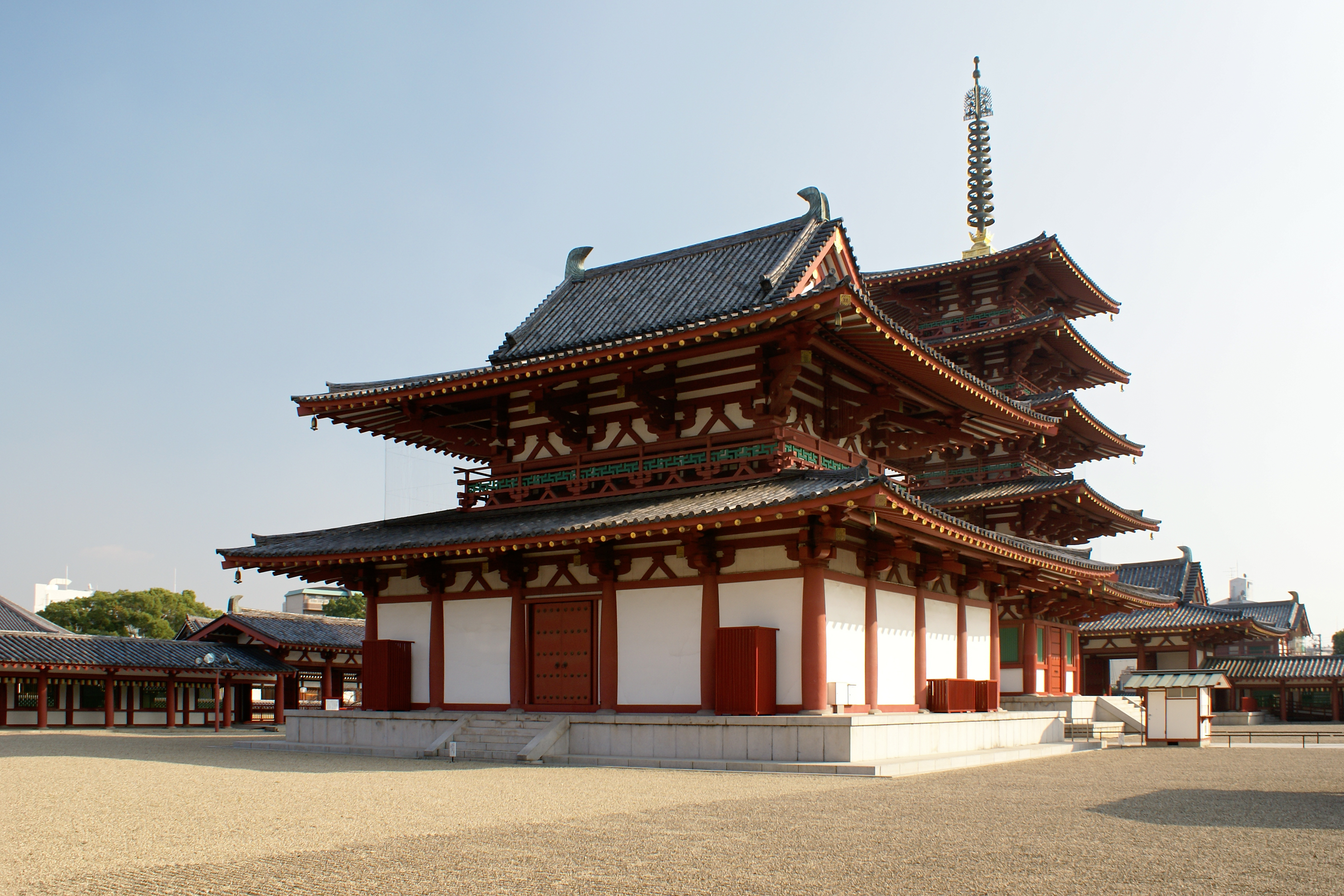 Kondo of Shitennō-ji in Osaka, Osaka prefecture, Japan